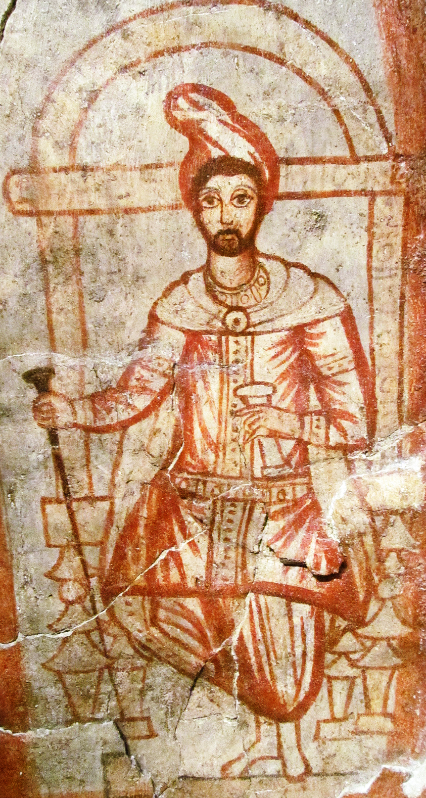 CIMRM 44 (vI.67): Palmyrene pater of the Roman cult of Mithras at Dura Europos (Syria), 3rd century, imagined by Franz Cumont to be a depiction of "Zoroaster" (published posthumously in 1975, "The Dura Mithraeum", Mithraic Studies: Proceedings of the First International Congress of Mithraic Studies, pp. 151-214). Cumont's continuity hypothesis is no longer followed today. This image appears as 'plate 25' in the aforementioned text, fig. 22b in CIMRM vol I. Rostovtzeff (who supervised the dig) is quoted in the aforementioned paper (p. 183, n. 174): "The two figures are Palmyrene in all their characteristic traits. [...] Compare the pater in the Mithraeum of Sta. Prisca." They are more probably portraits of leading members of that mithraeum's congregation of Syrian auxiliaries. The Roman military presence at Dura Europos included a unit of Palmyrene archers (p. 205).